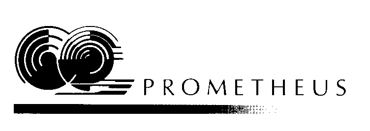 Official PROMETHEUS logo.